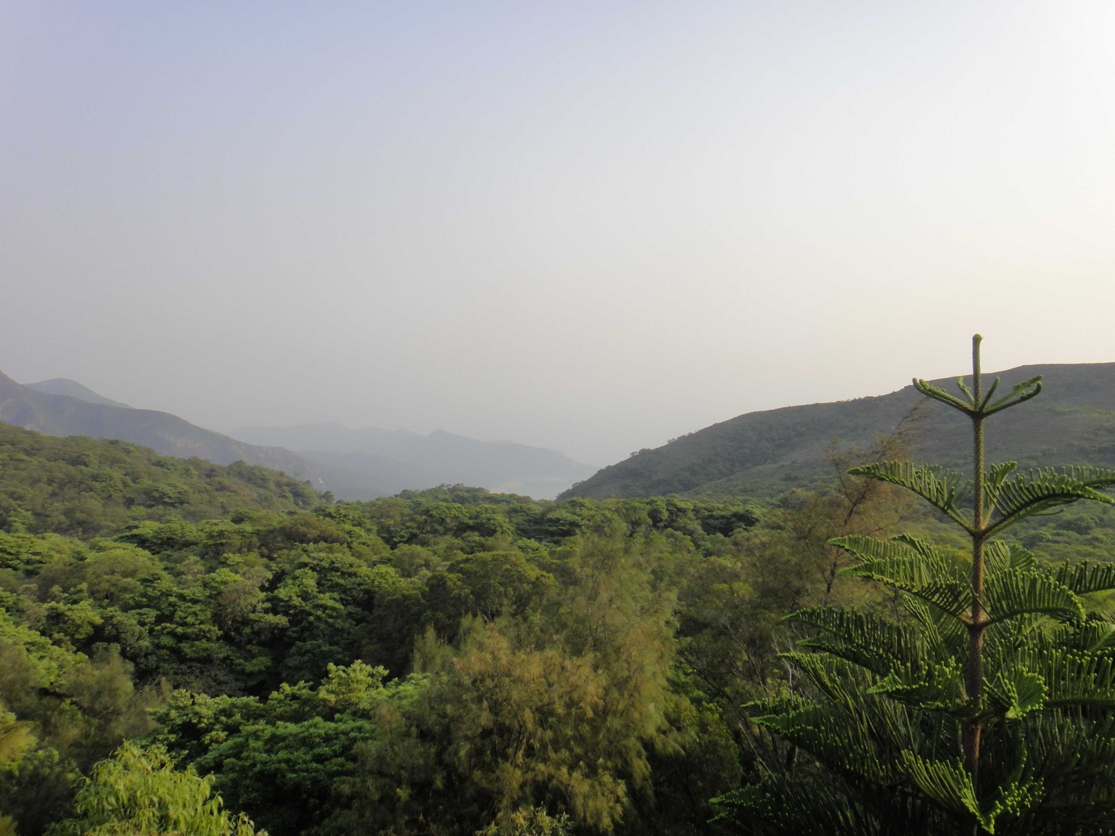 Tian Tan Buddha